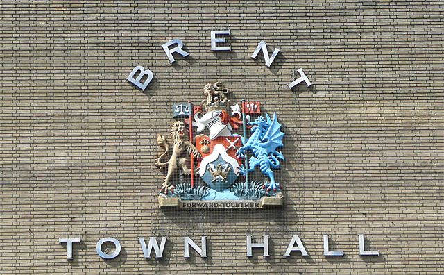 Brent Town Hall (detail), Wembley